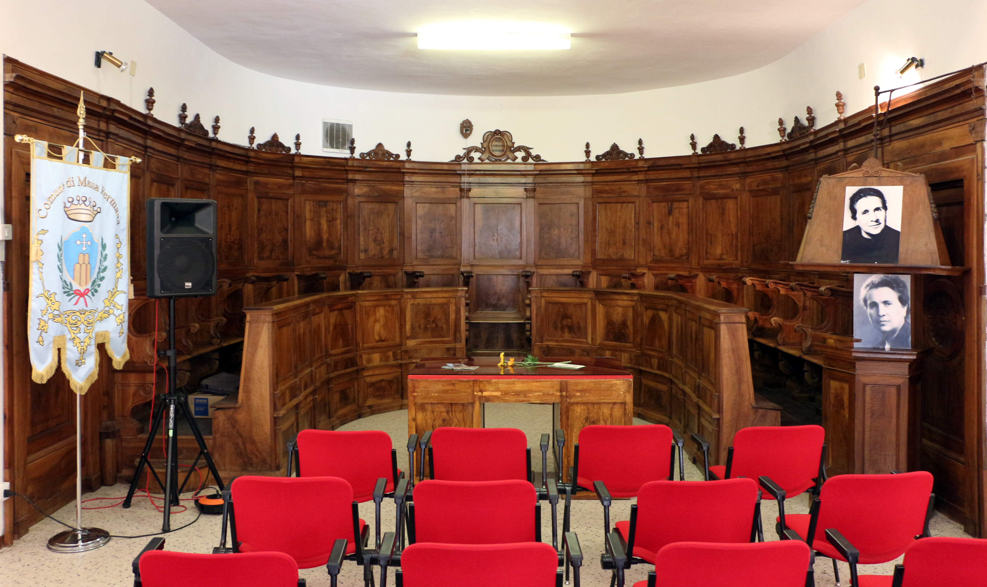 Massa Fermana Pinacotheque